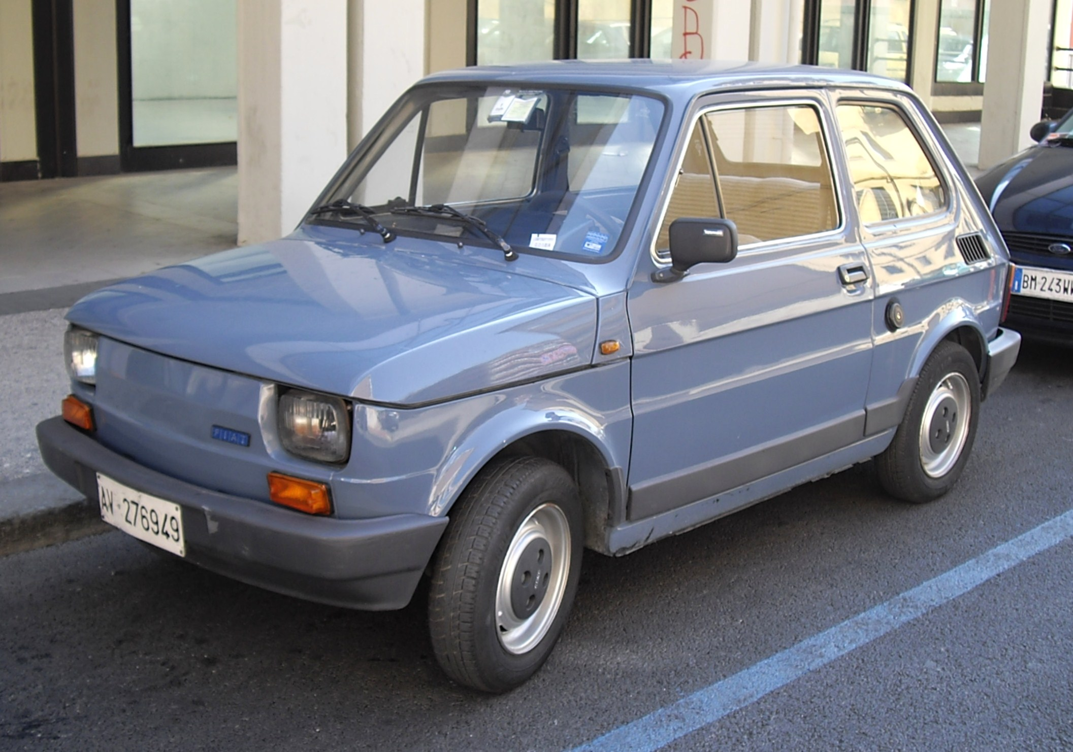 Fiat 126 FSM